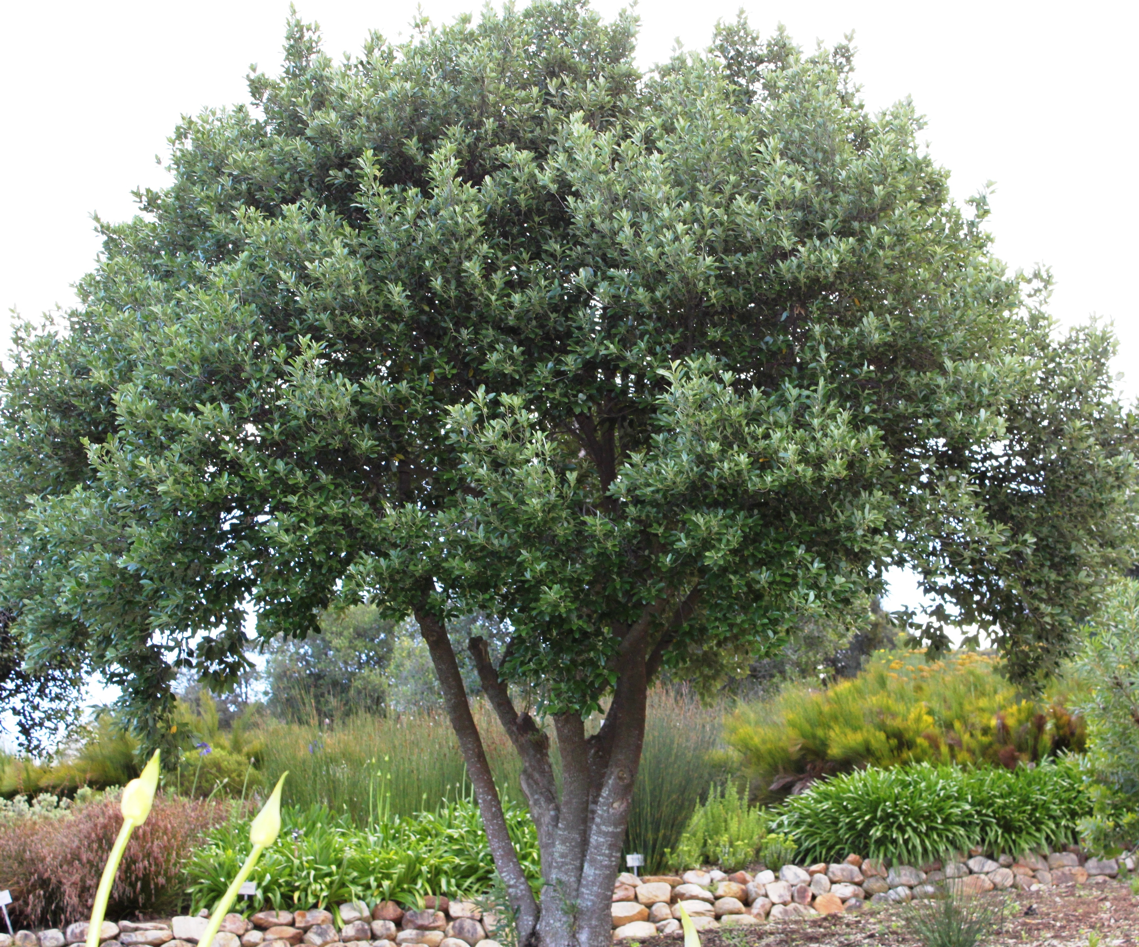 Kiggelaria africana tree. Cape Town.